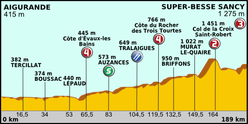 Profil of the 8th stage of the Tour de France 2011